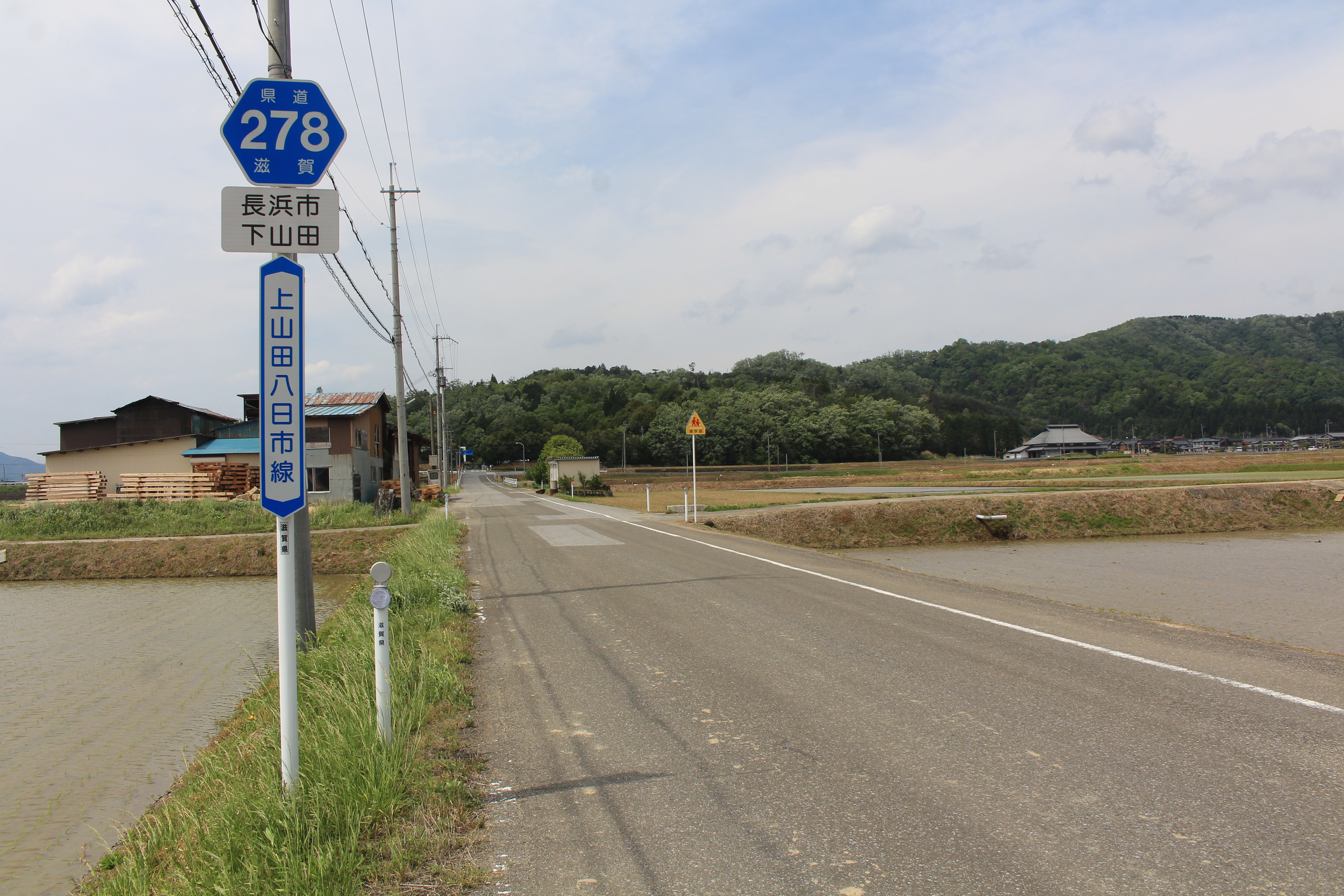 Shiga Prefectural Road Route 278 in Shimoyamada, Nagahama, Shiga prefecture, Japan.